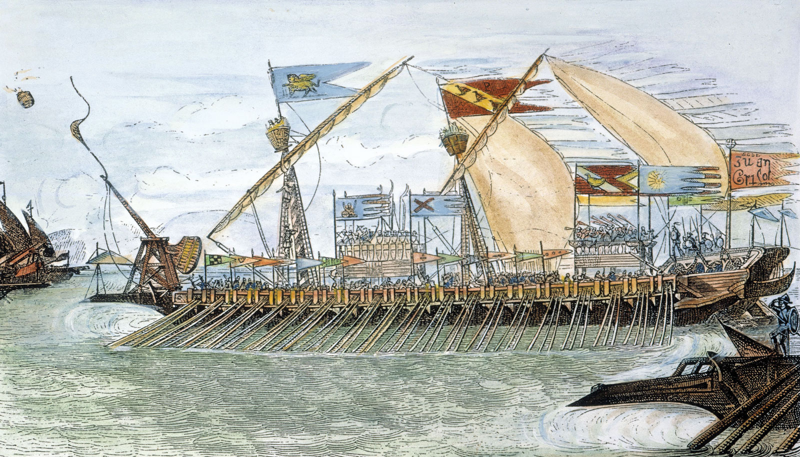 A 19th century engraving of a Venetian galley fighting a Genoese fleet at the battle of Curzola in 1298. The Granger Collection